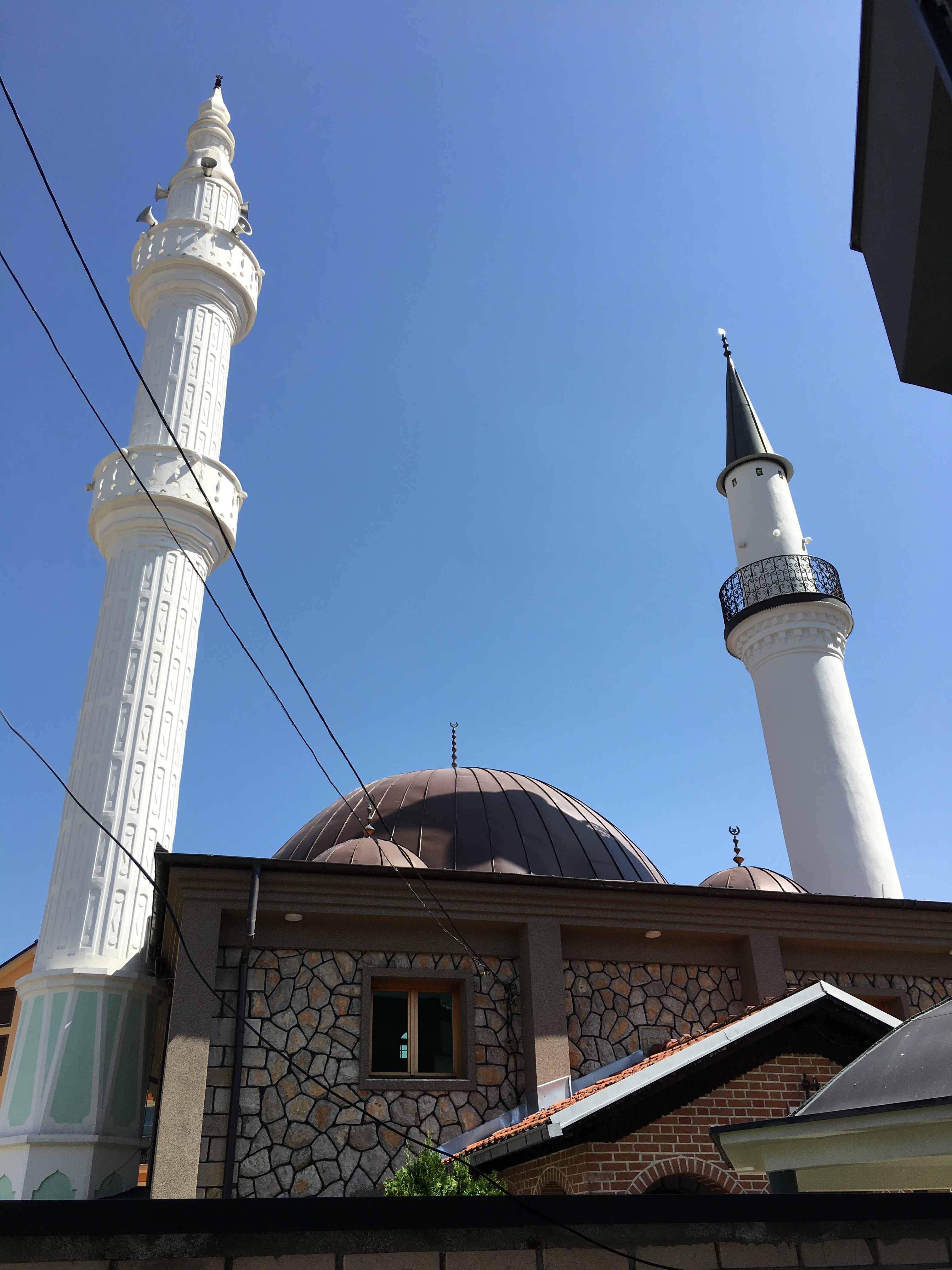 Upper Mosque in the village of Oktisi